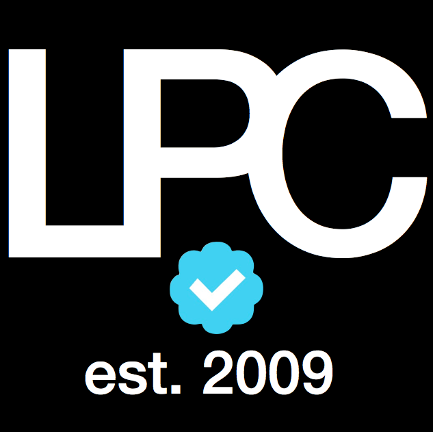 The Lincoln Philosophy Cafe Logo Est. 2009